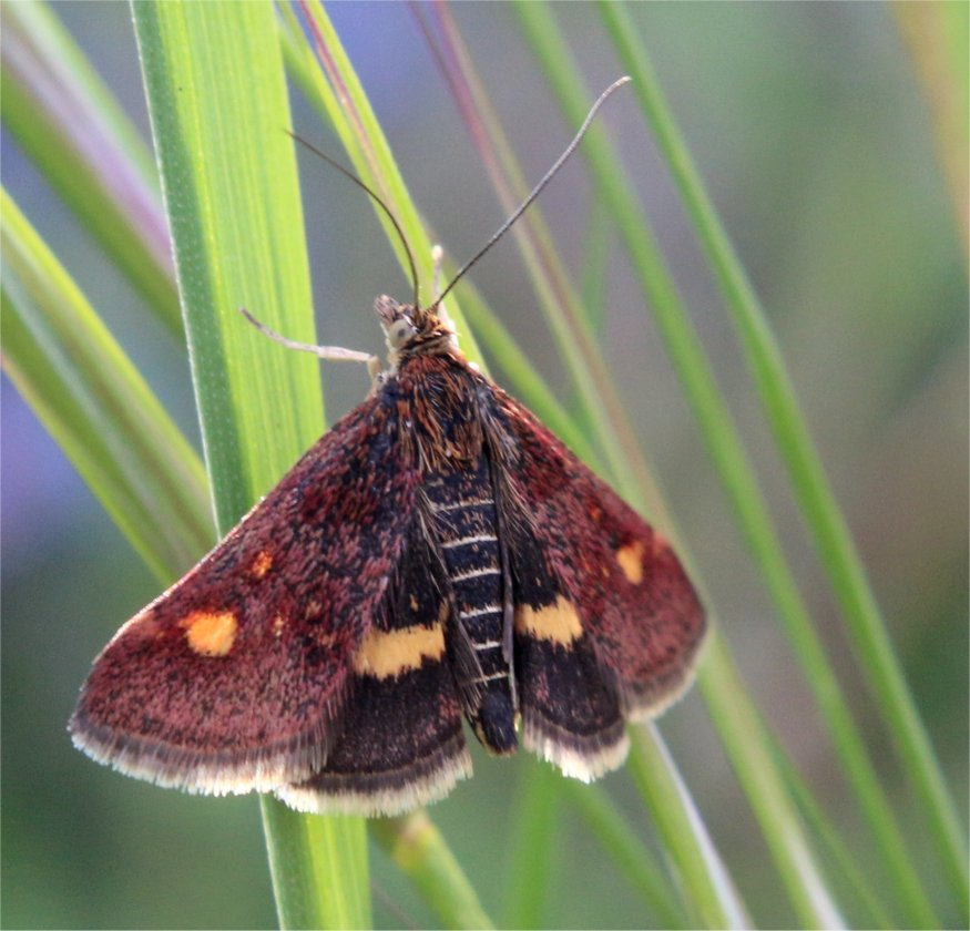 Mint moth (pyrausta aurata). Fresh, first brood. 15th May 2015, Cheshire, England